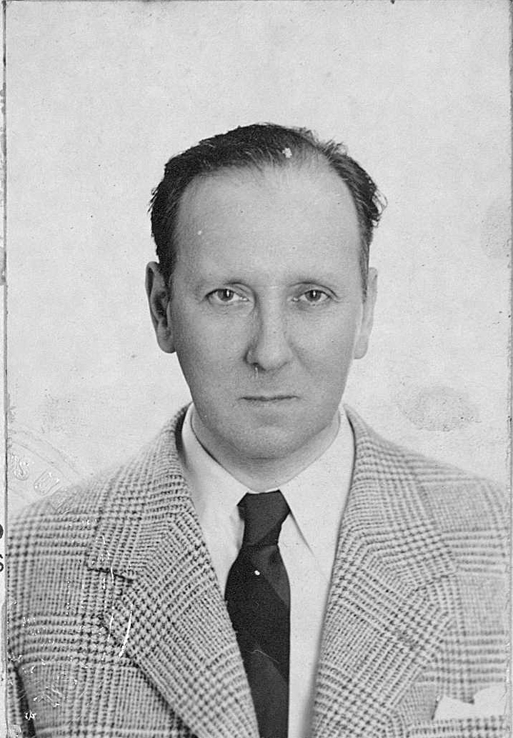 António Botto passport photo, Lisboa, 1940s.